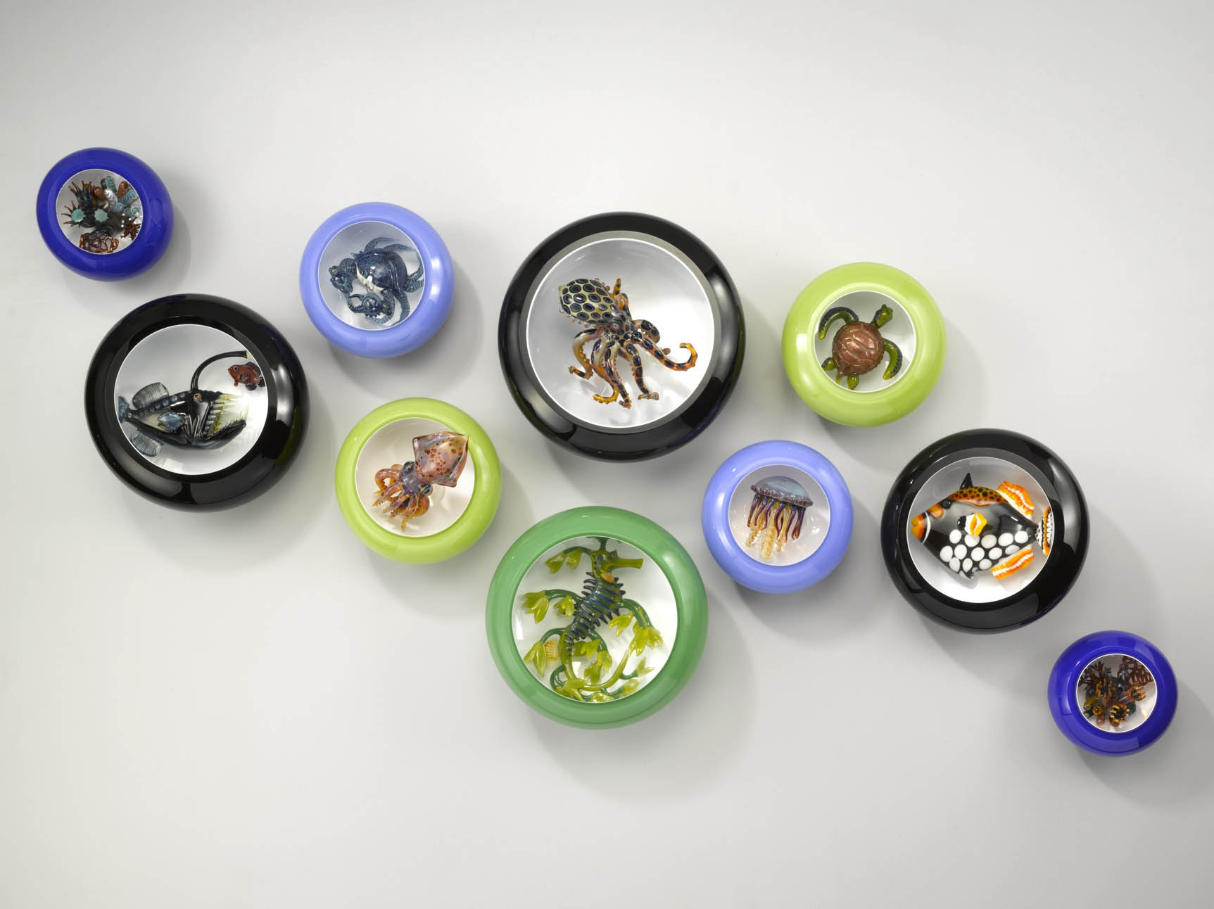 Joe Peters and Peter Muller collaboration 2009 - Photo by ToTo